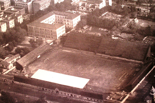 Aerial view of Campo Testaccio, an association football venue which was the home ground of AS Roma in the 1930s and was demolished in 1940